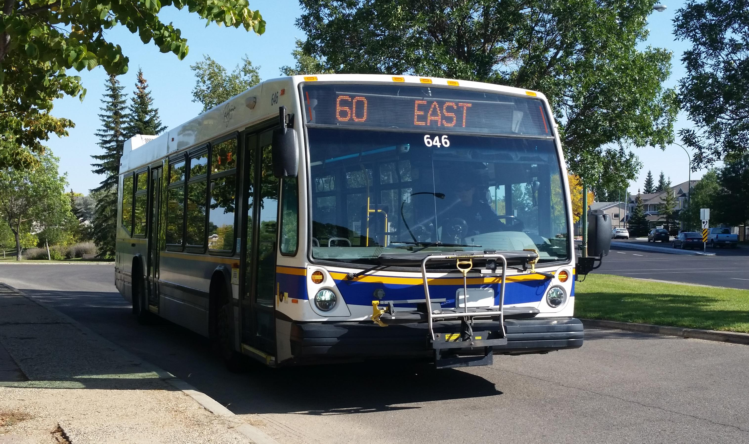 Regina Transit bus 646 operating on Route 60 Arcola East Express at Sandra Schmirler Centre, August 2018